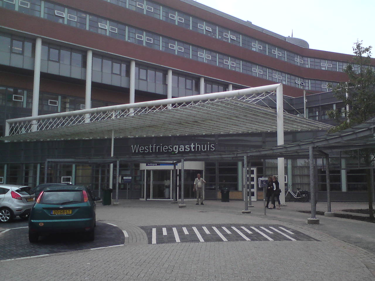 Main entrance of the Westfries Gasthuis in Hoorn. Unknown